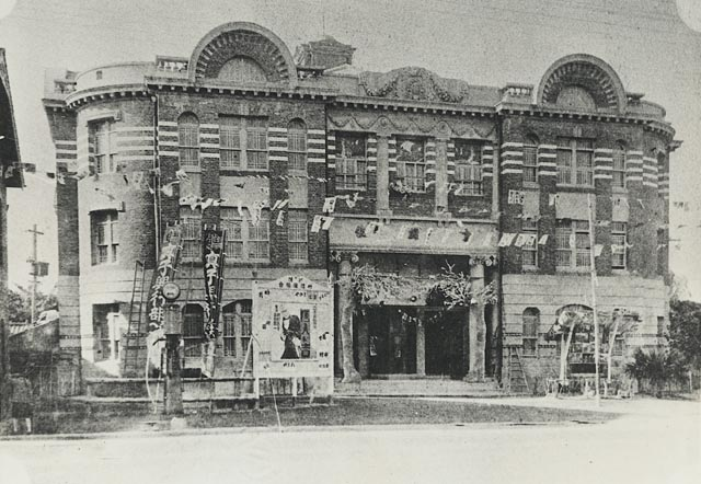 Takao Gekijō